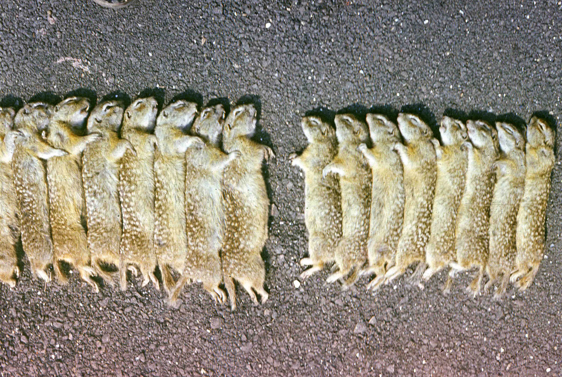 Speckled ground squirrel's phenotype variety. Odesa oblast, Ukraine.